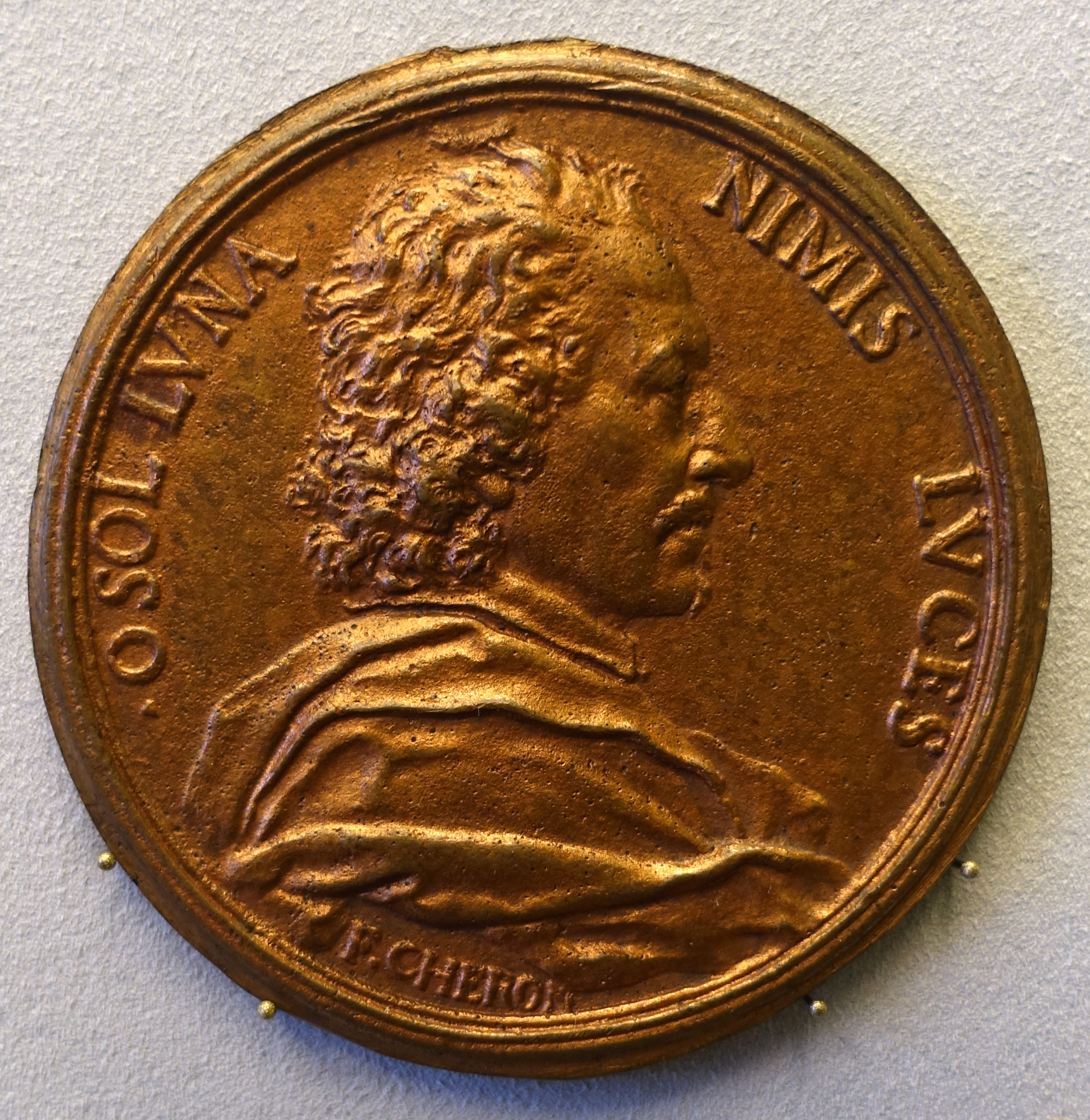 Exhibit in the Bode-Museum, Berlin, Germany. This work is in the public domain because the artist died more than 100 years ago.